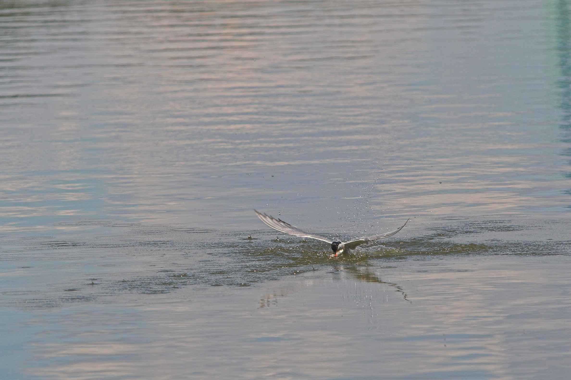 The moment of catch. This Sterna hirundo has just dived into the water and is surfacing with his catch. Photo by Thermos.